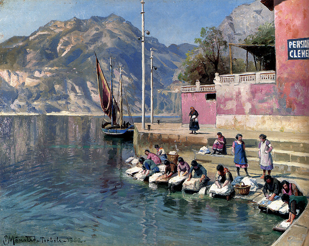 Peder Mørk Mønsted - Woman washing clothes